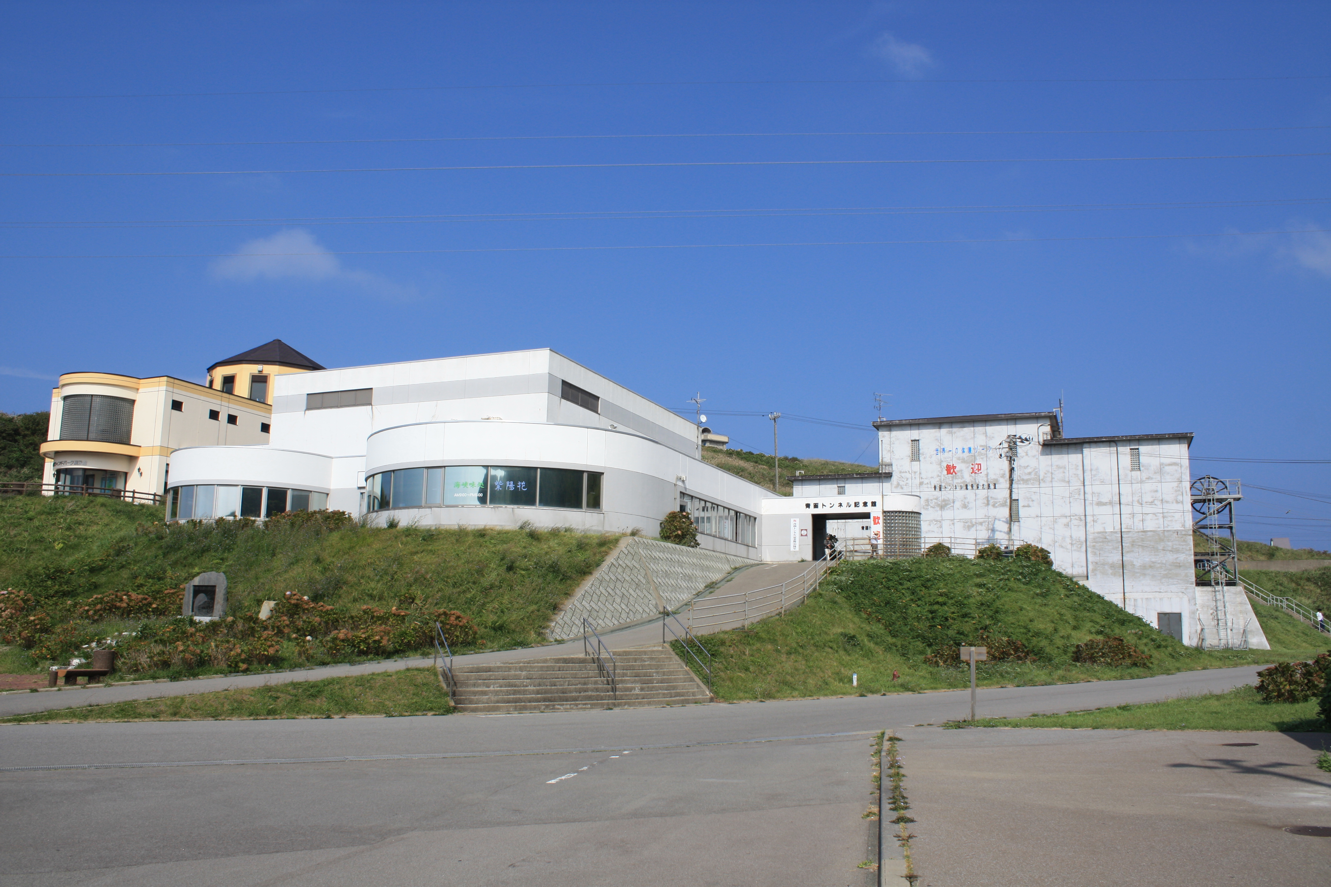 Michinoeki Minmaya on the Japan National Route 339 in Sotogahama Town, Aomori Prefecture, Japan